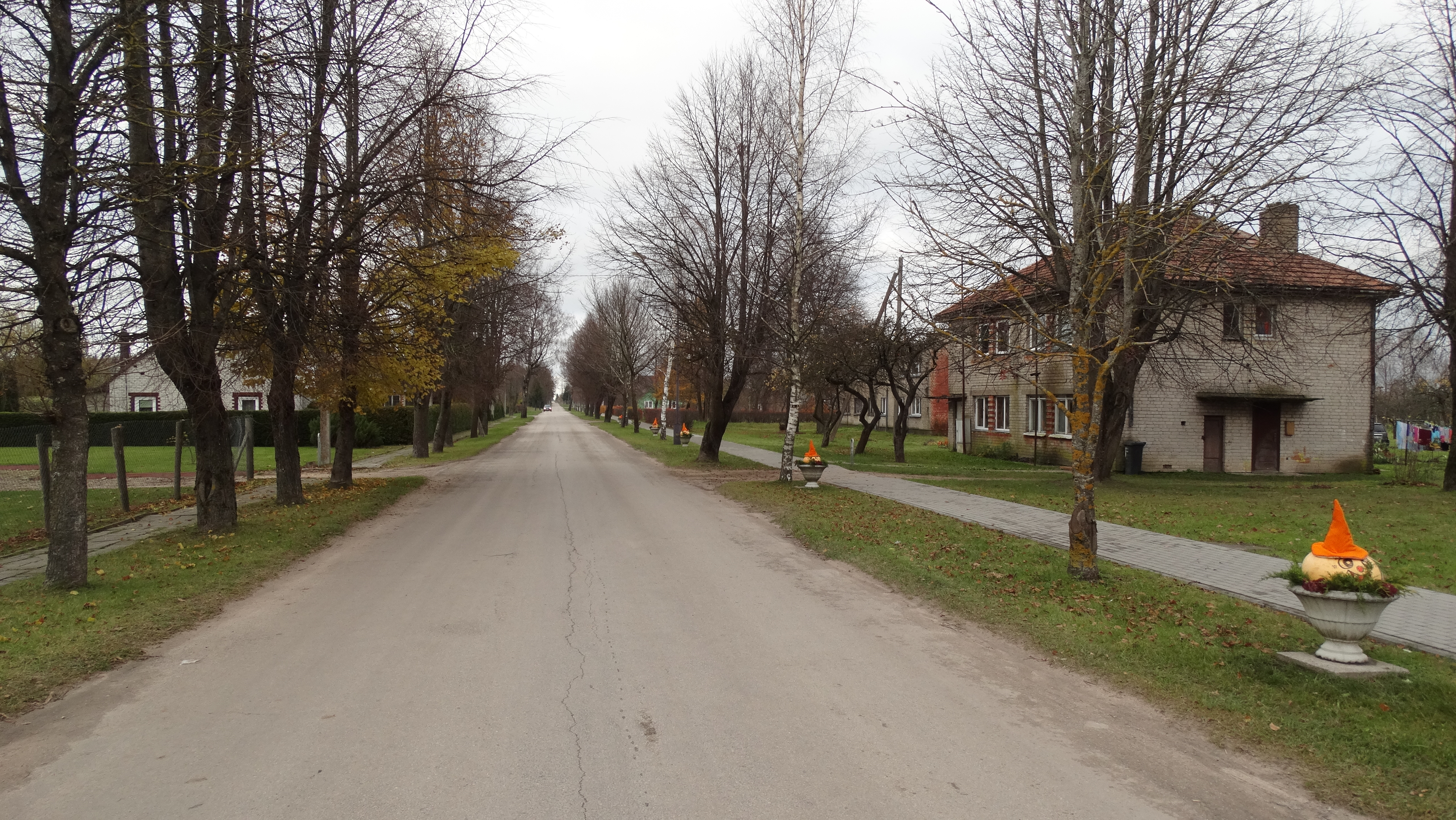 Usėnai, Šilutė district, Lithuania